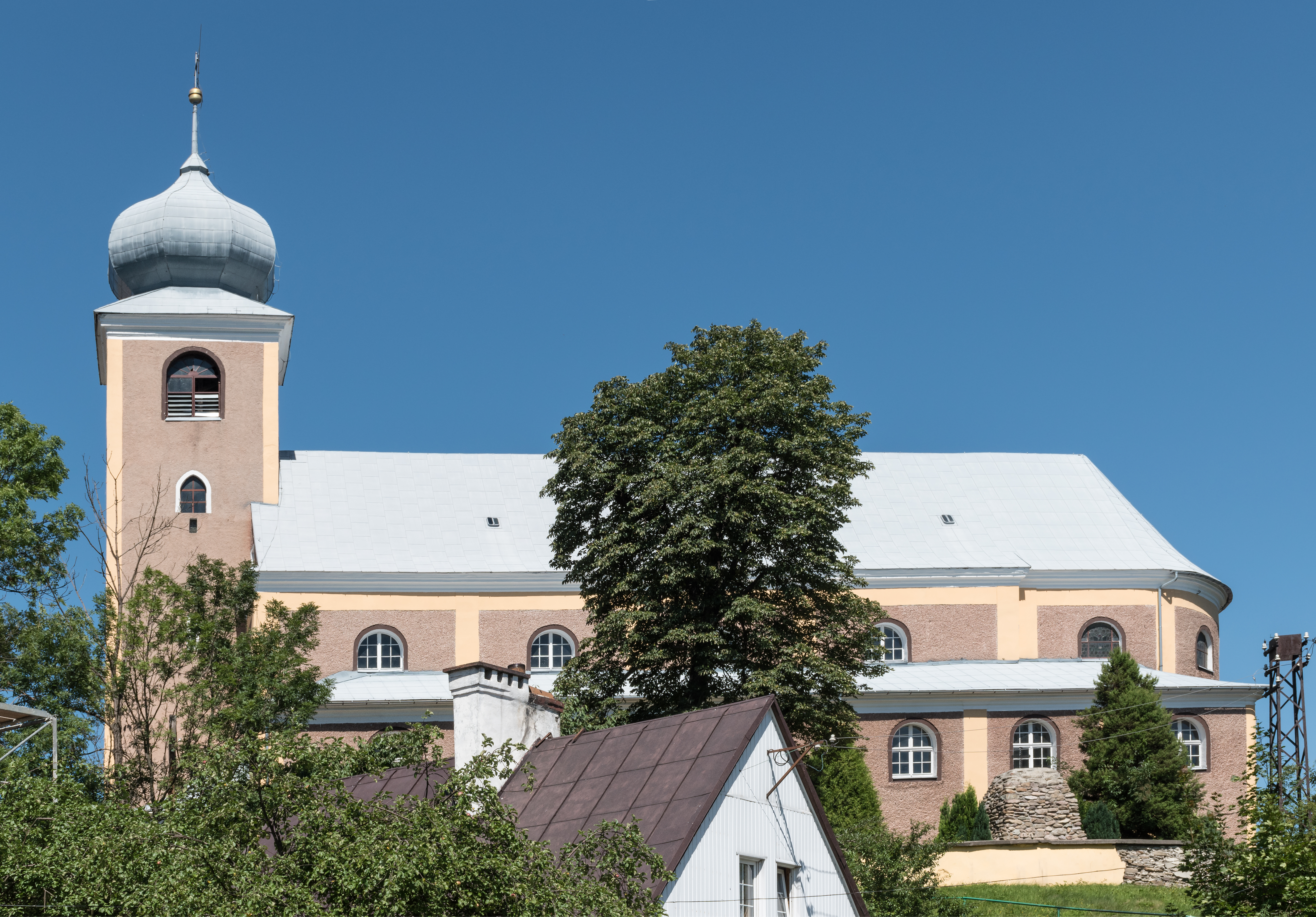 Our Lady Queen of Poland and Saint Maternus church in Stronie Śląskie